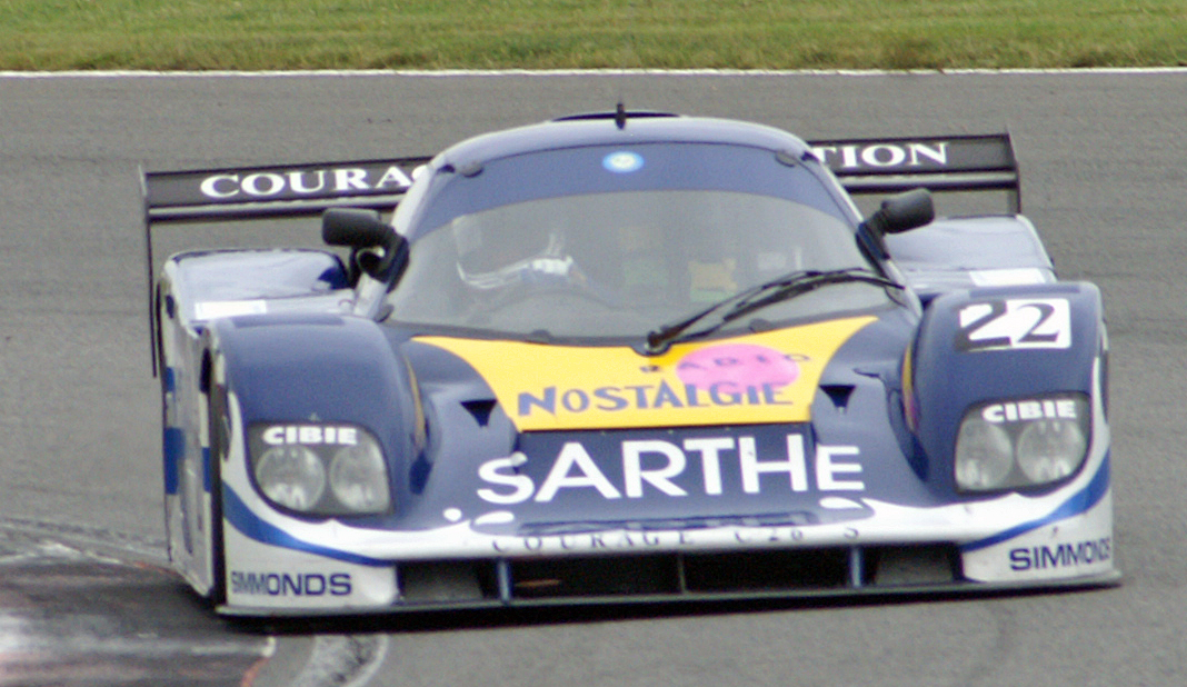 Courage C26 at Silverstone Classic 2009